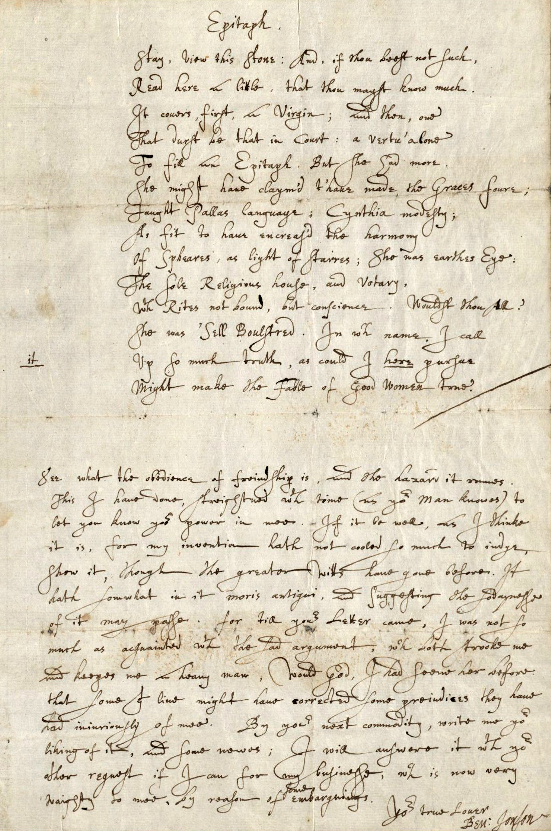 Manuscript: "Epitaph for Cecilia Bulstrode", 1609, by Ben Jonson (1573?-1637). From Amy Lowell autograph collection. MS Lowell Autograph File 185, Houghton Library, Harvard University